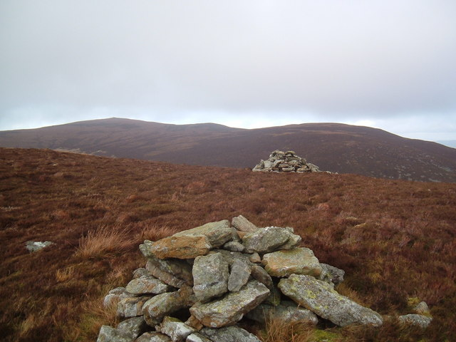 Dewey bagging, near to Foel-Boeth [hill or Mountain], Gwynedd, Wales. Cairn and wind shelter on the summit of Foel-boeth a 500m top in the Arenig hills.